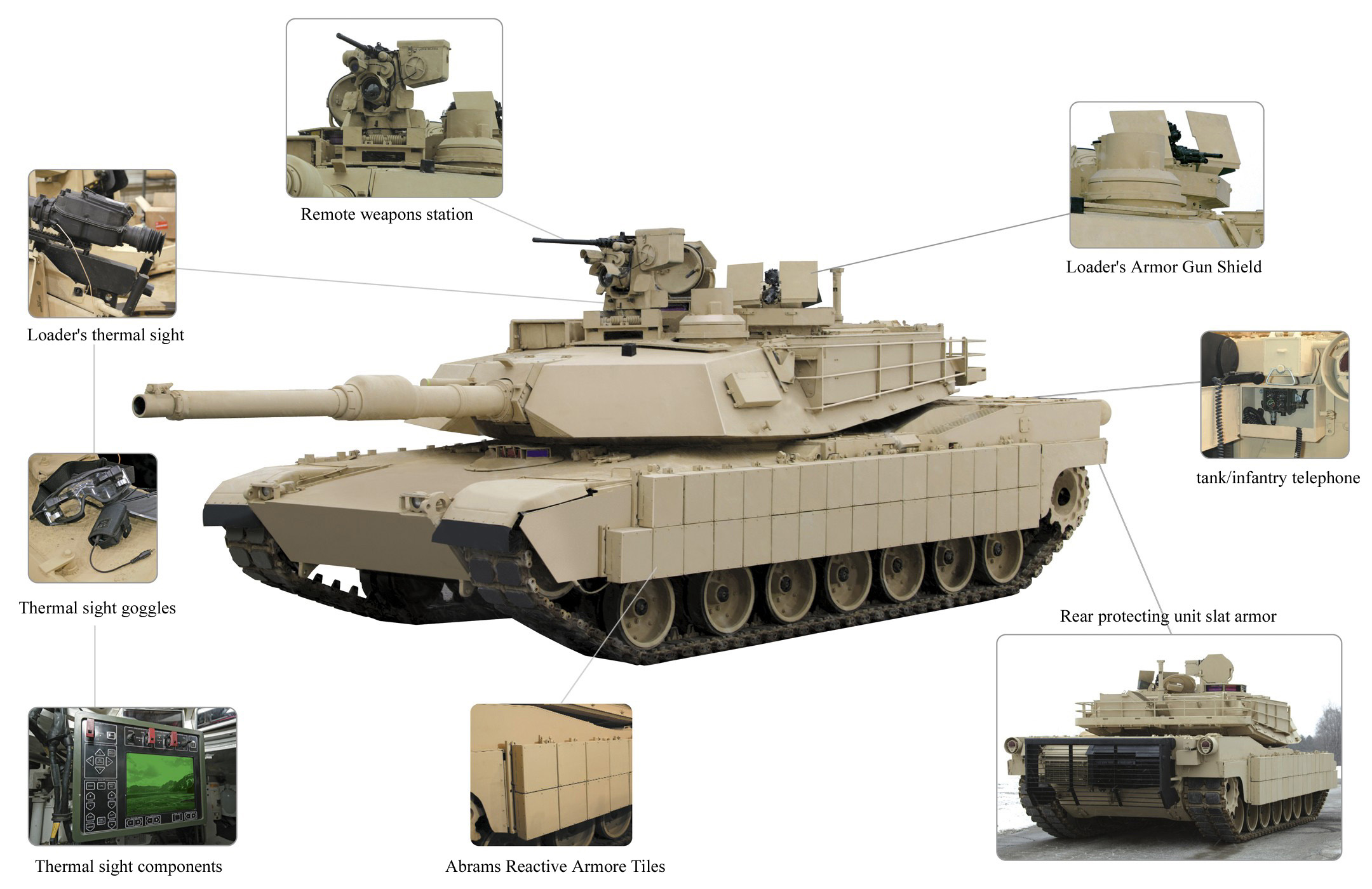 M1A2 with TUSK (Tank Urban Survival Kit) for urban battle.